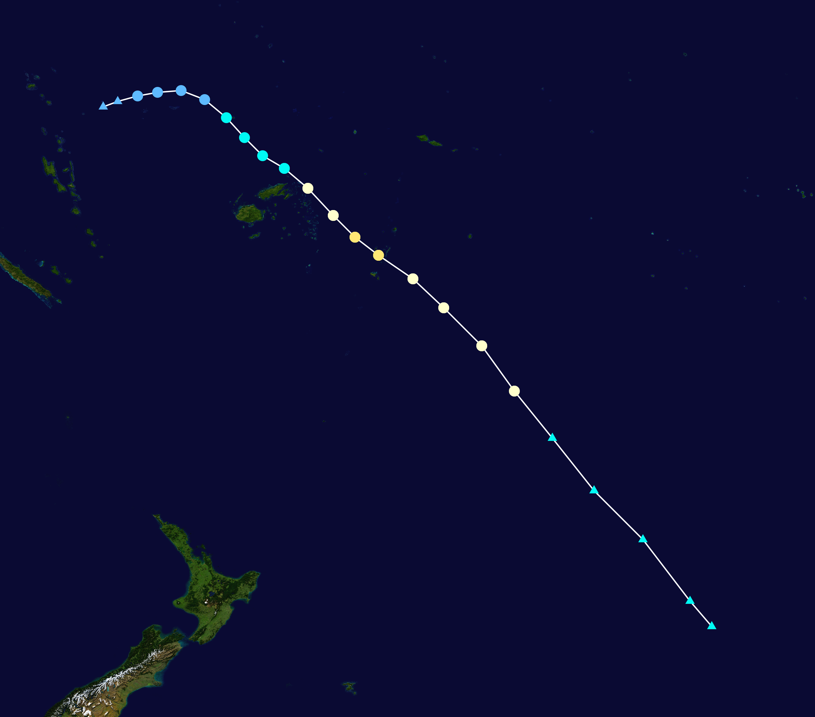 Track map of Severe Tropical Cyclone Tino of the 2019-20 South Pacific cyclone season. The points show the location of the storm at 6-hour intervals. The colour represents the storm's maximum sustained wind speeds as classified in the Saffir–Simpson scale (see below), and the shape of the data points represent the nature of the storm, according to the legend below. Saffir–Simpson scale Tropical depression≤38 mph≤62 km/h Category 3111–129 mph178–208 km/h Tropical storm39–73 mph63–118 km/h Category 4130–156 mph209–251 km/h Category 174–95 mph119–153 km/h Category 5≥157 mph≥252 km/h Category 296–110 mph154–177 km/h Unknown Storm type Tropical cyclone Subtropical cyclone Extratropical cyclone / Remnant low / Tropical disturbance / Monsoon depression